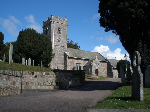 SS Margaret and Andrew parish church, Littleham, Exmouth, South Devon, seen from the southwest